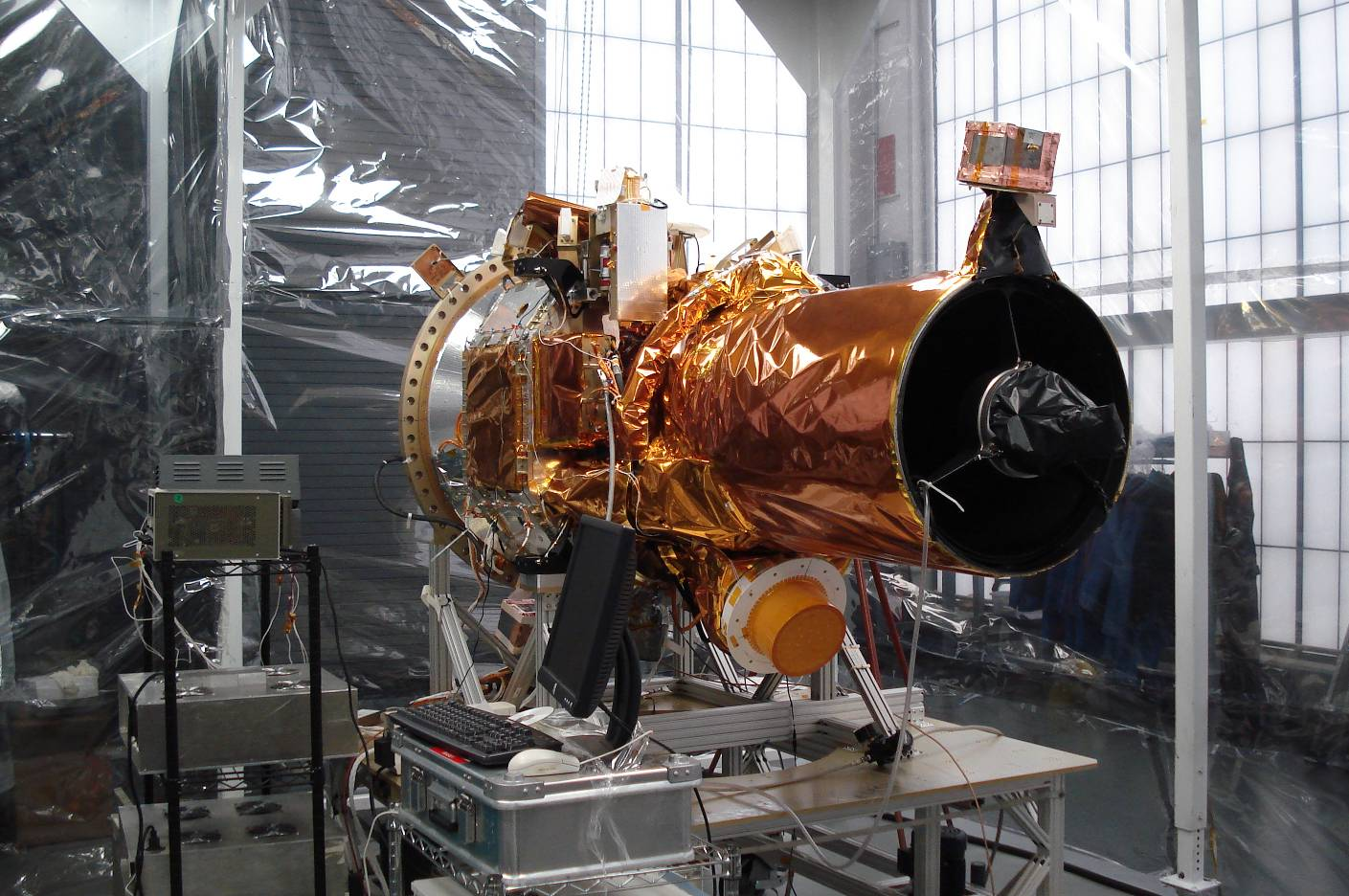 TacSat-2 spacecraft during integration and testing